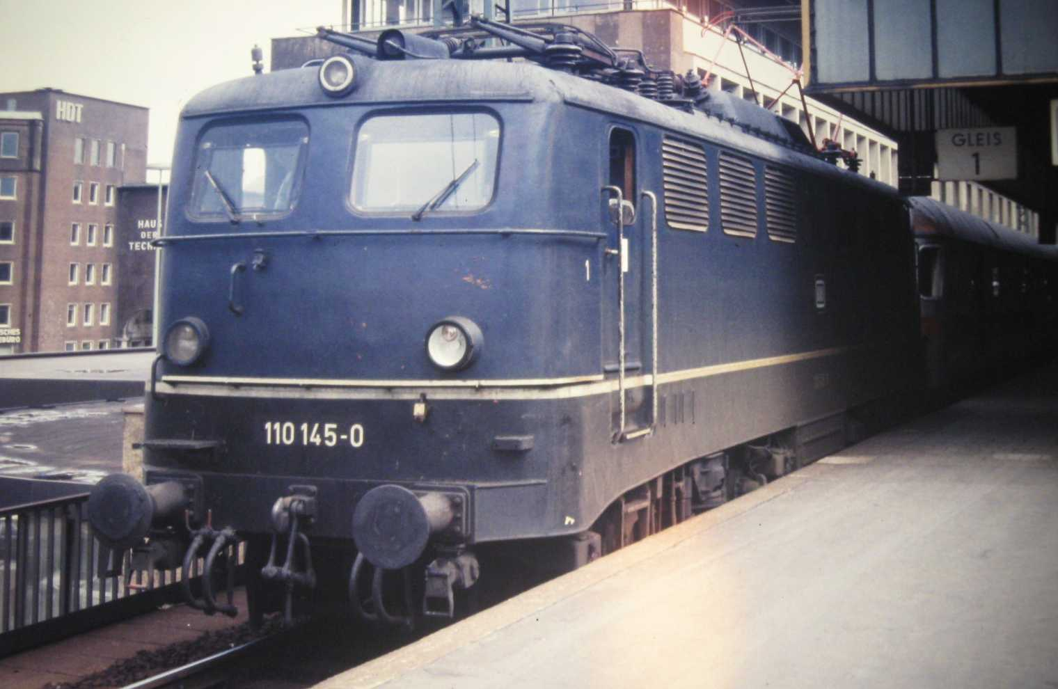 DB 110145-0 (built in 1958) first production series from with horizontal blades and single lamps, Essen Hbf; Archive no. 78/01